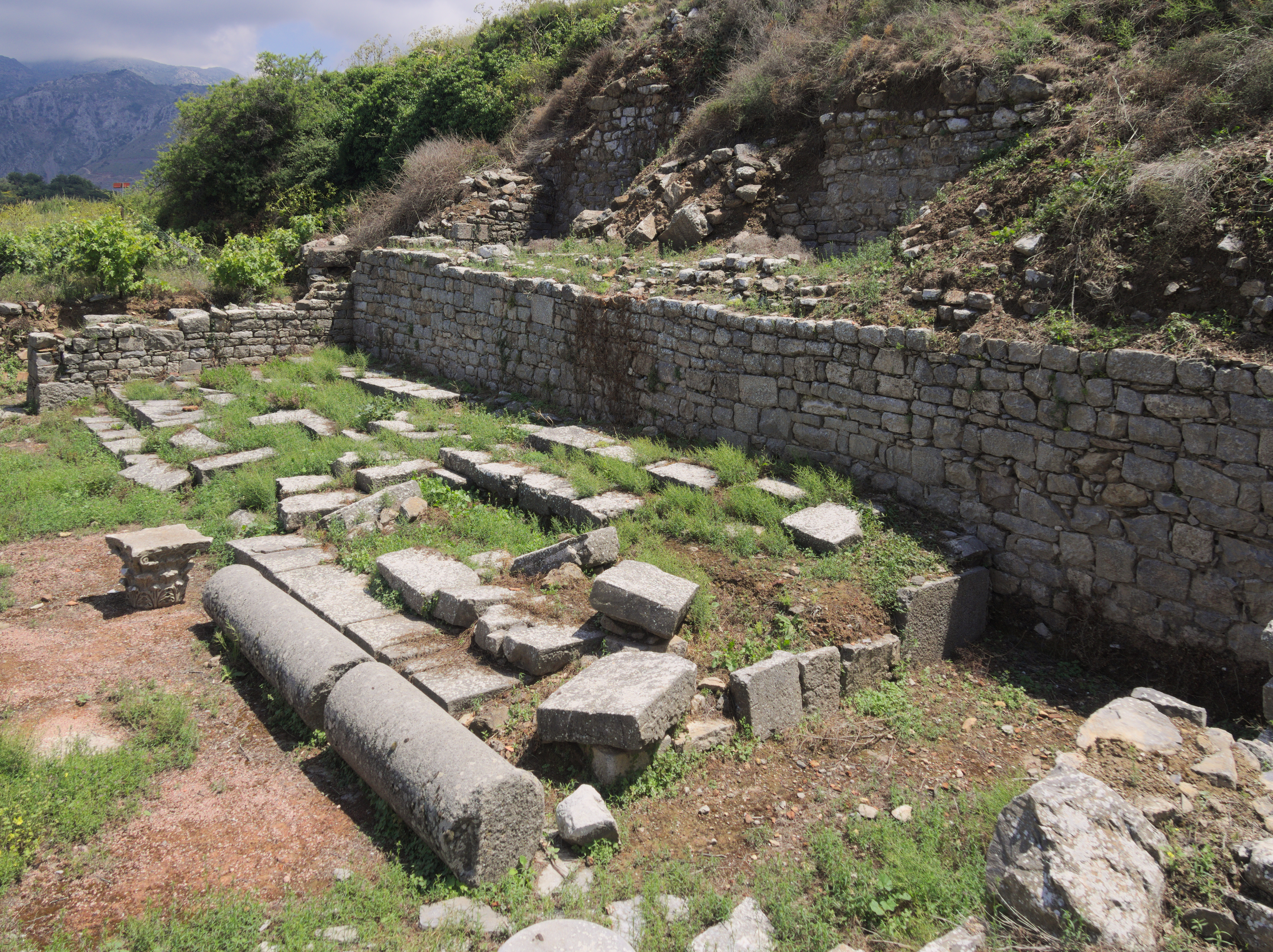 The vouleuterion of ancient Lyttos, Crete.